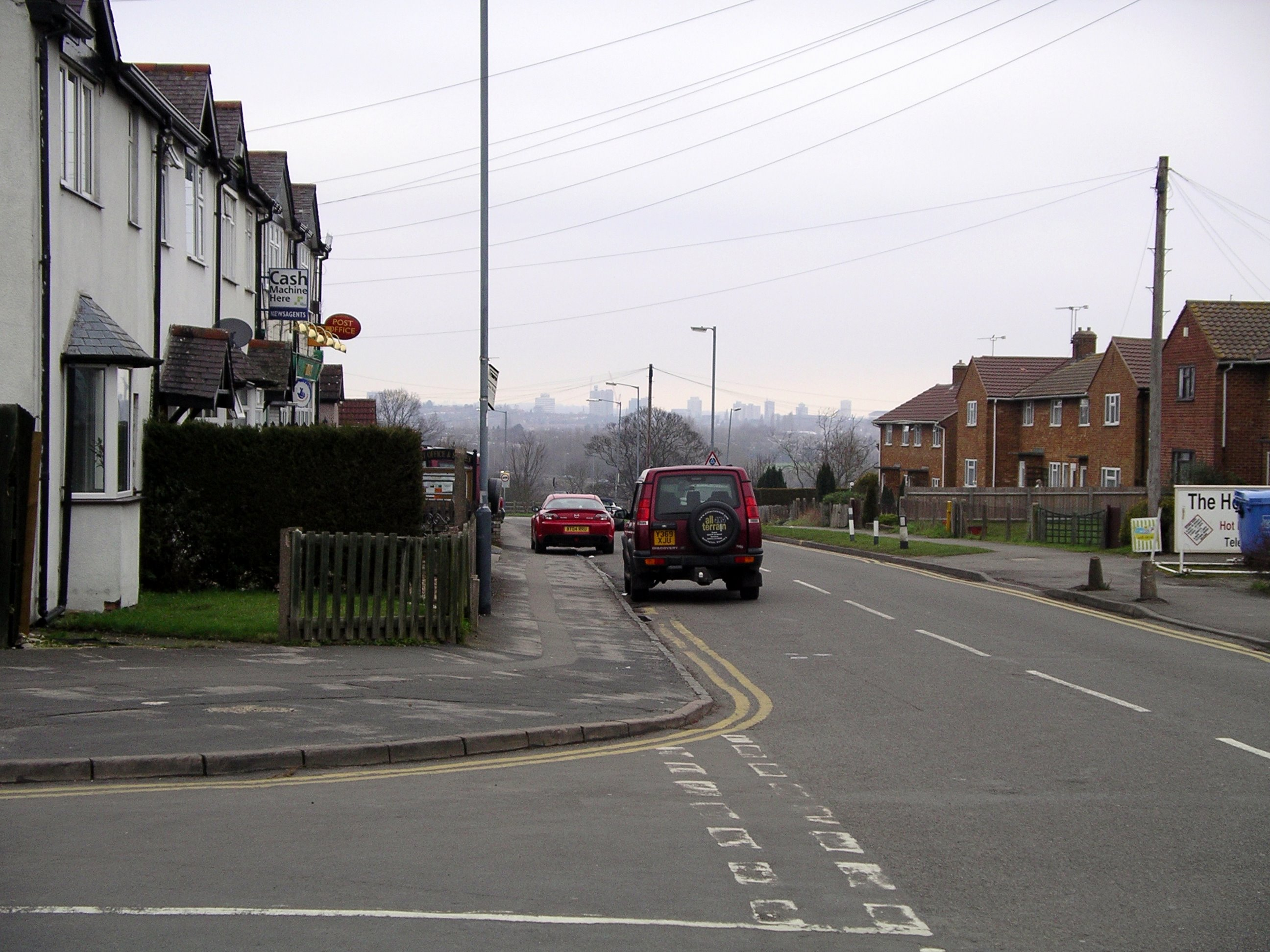 Photo taken on 18 February 2007 of Coventry Raod, which runs through Baginton, Warwickshire, near Coventry, England.